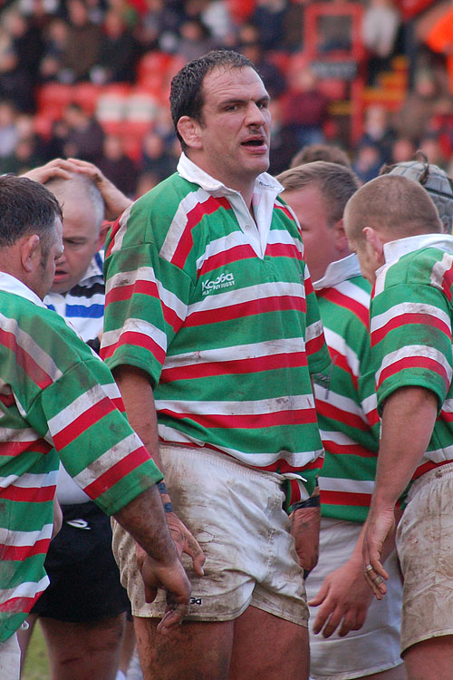 Martin Johnson playing a benefit match between Leicester Tigers '96 and Bath '96. The Tigers won 45-15.